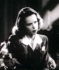 Cropped screenshot of Jane Randolph from the trailer for the film Cat People.